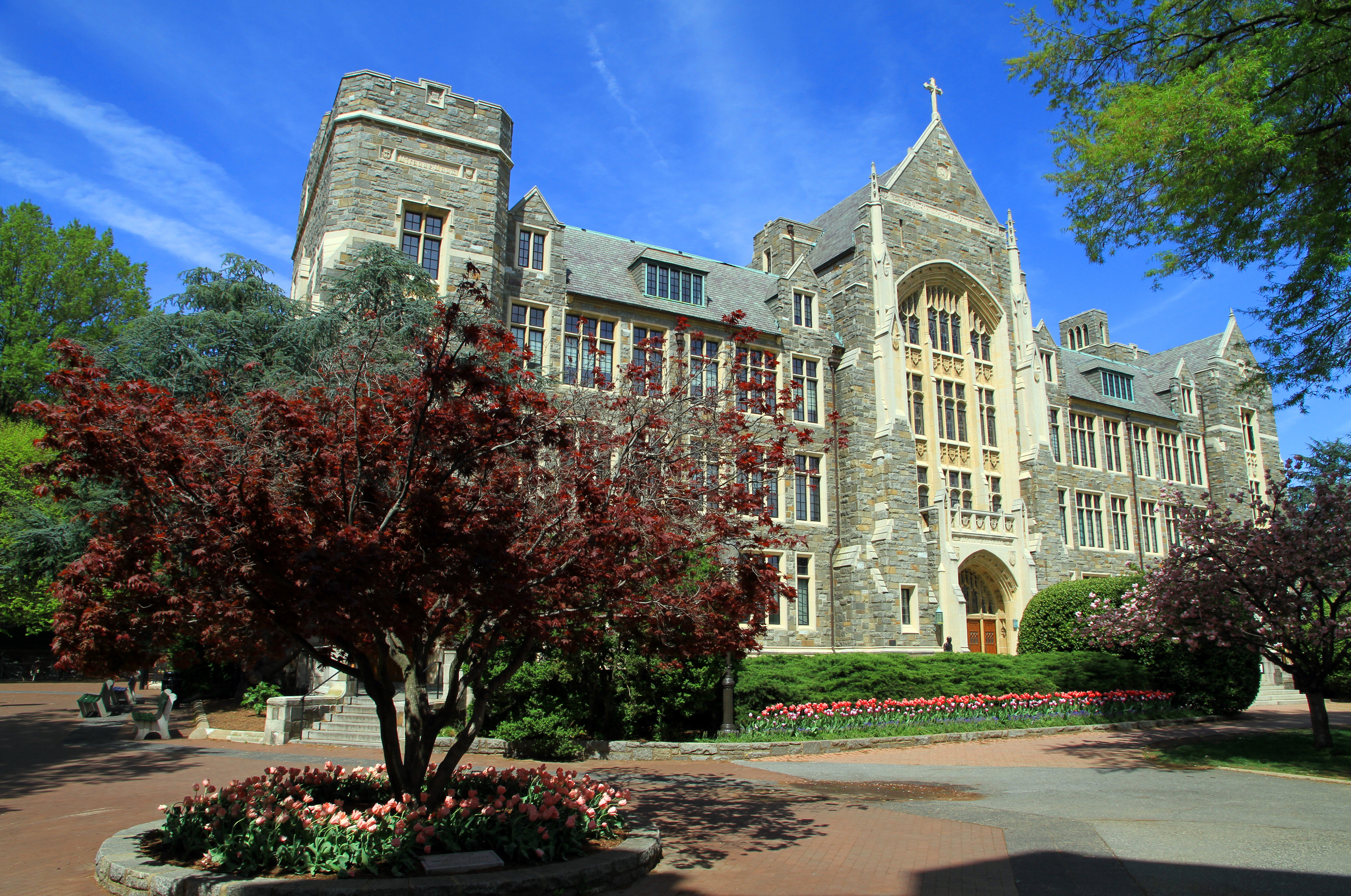 Georgetown University Dept of Psychology